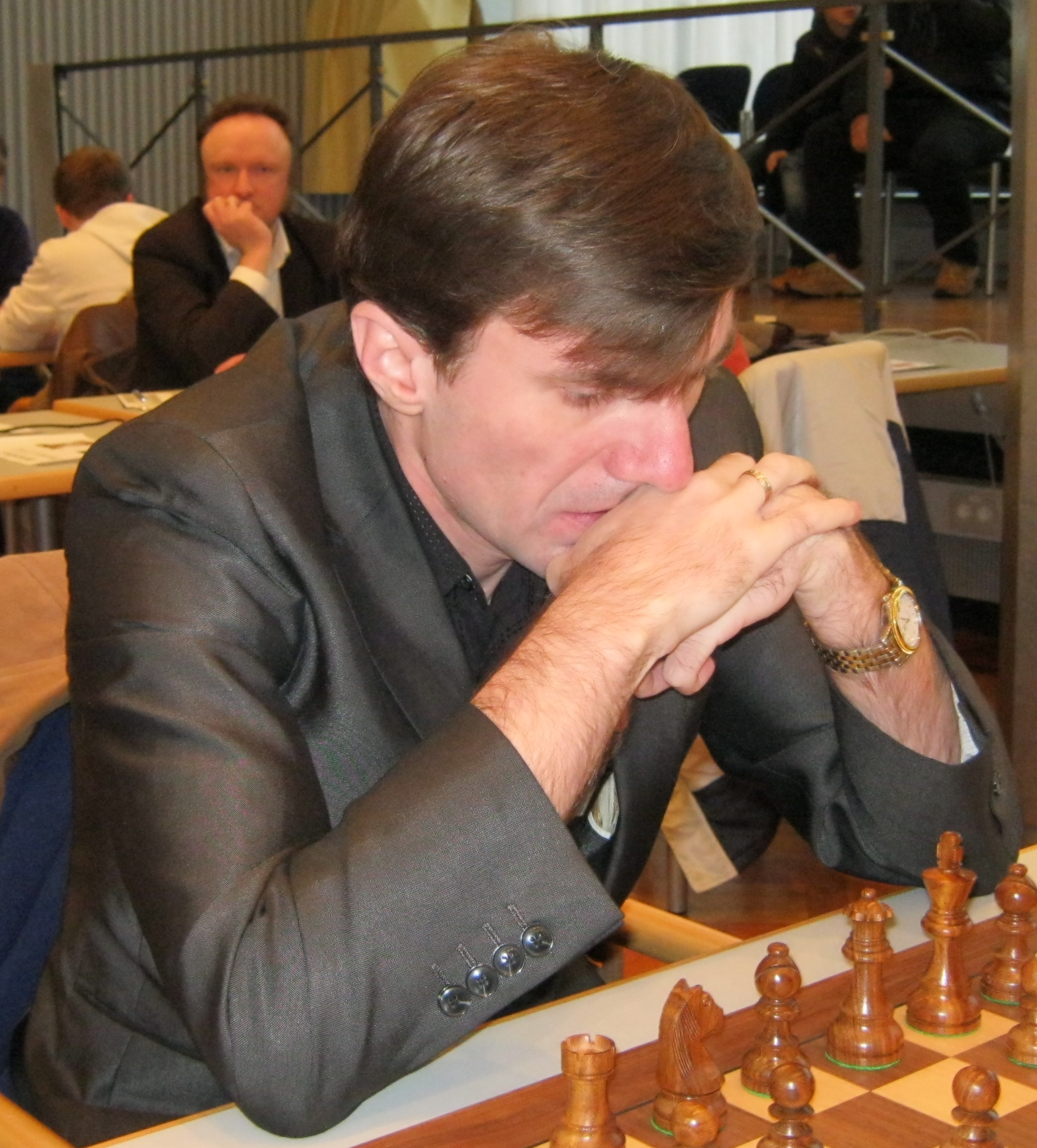 Vadim Malakhatko, chess grandmaster